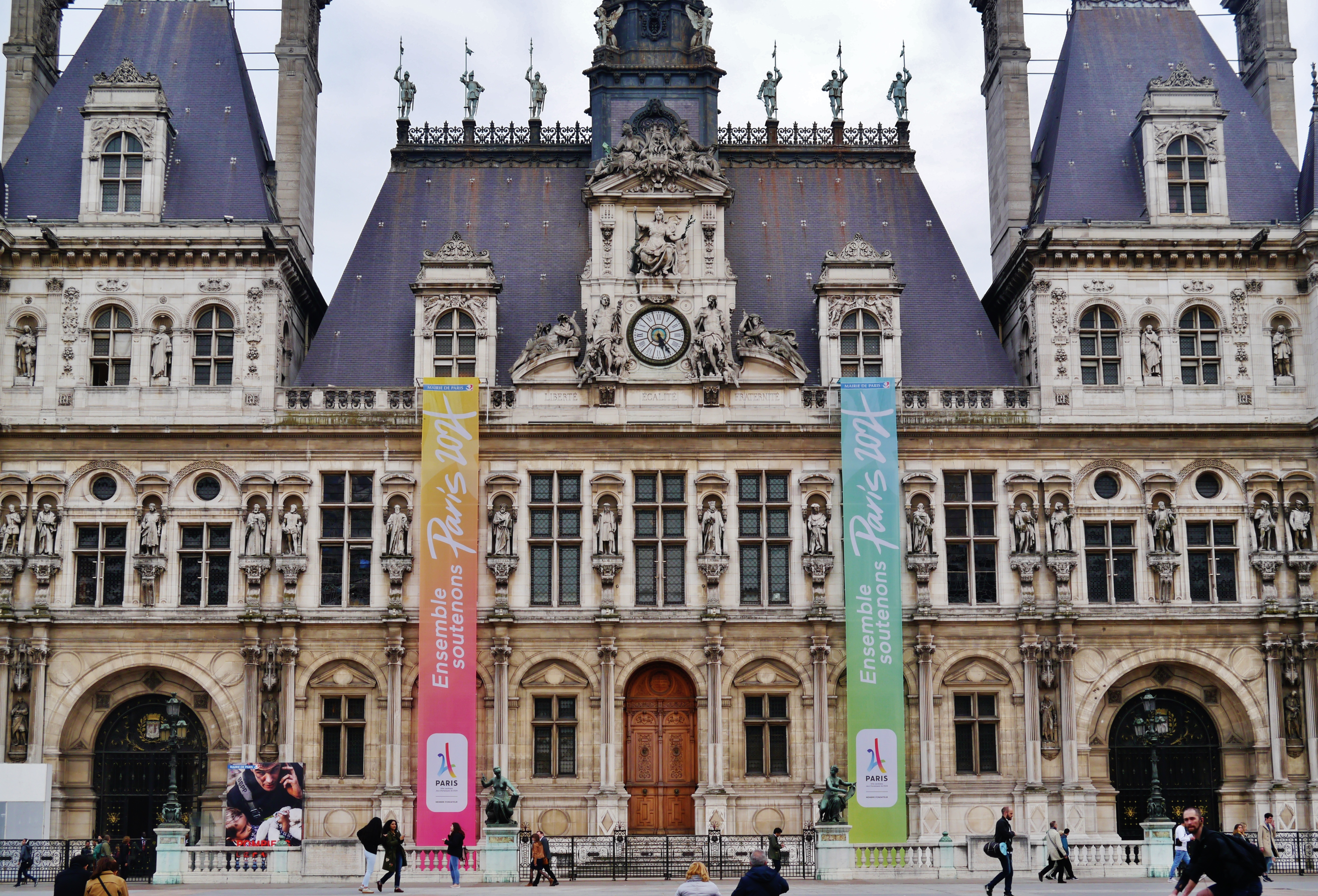 City Hall, Paris, Region of Île-de-France, France